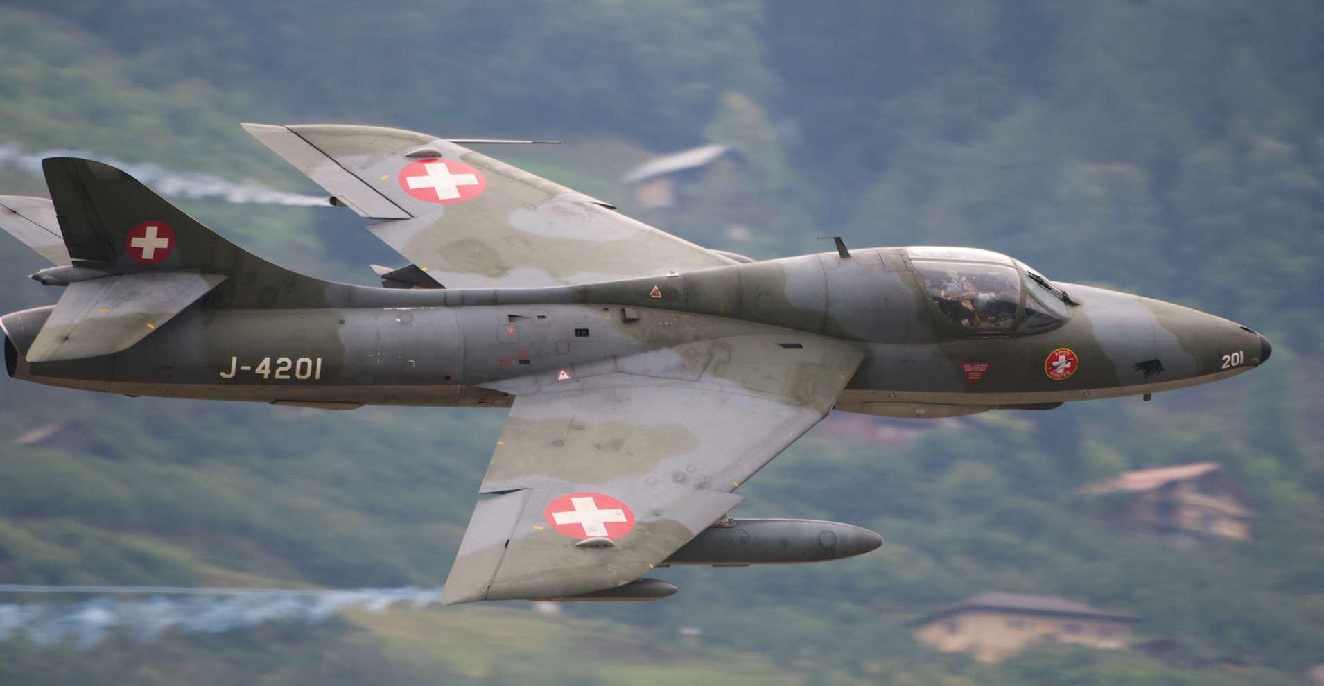 Breiting Airshow